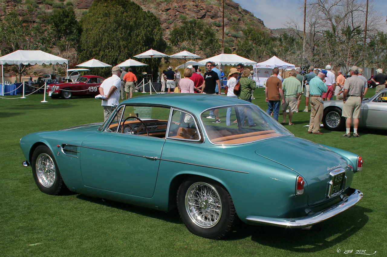 1956 Maserati A6G 2000 Allemano Coupe - rvl 2008 Desert Classic Concours d'Elegance in Palm Springs, California.